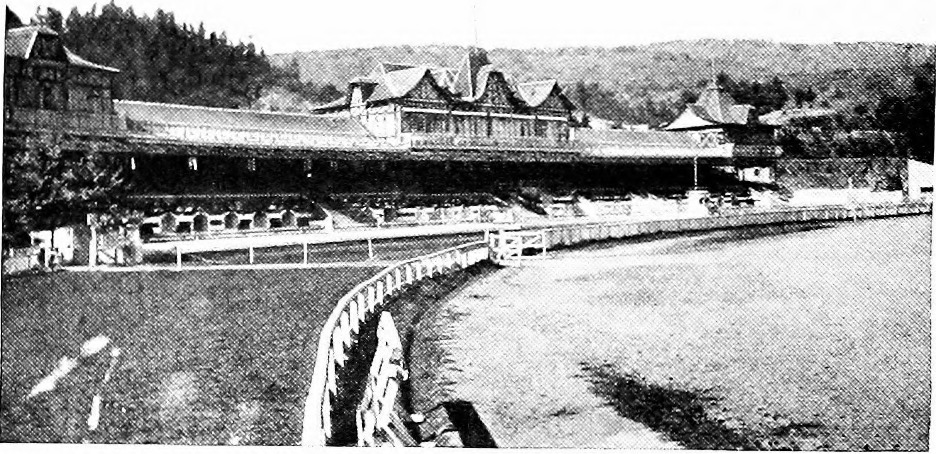 Identifier: cu31924021189315 Title: Chile today and tomorrow Year: 1922 (1920s) Authors: Joyce, Lilian Elwyn (Elliott), 1884- Subjects: Publisher: New York, The Macmillan company View Book Page: Book Viewer About This Book: Catalog Entry View All Images: All Images From Book Click here to view book online to see this illustration in context in a browseable online version of this book. Text Appearing Before Image: But of all Chilean off^erings, none has been of moreimportance to the world, apart from the potato, thanthat strange naturally produced chemical of the north-ern rainless regions, nitrate of soda. Nitrate hasbrought millions of exhausted or semi-productive acresinto rich fertility, employs a hundred thousand peoplein its production and transport, and is today a necessityof the farmer. Artificial production is unlikely to rivalthe natural deposits in the markets of the world, owingto the cost of manufacture, and the Chilean fields, im-mense and practically inexhaustible, form a naturaltreasure of prime industrial importance. Other na-tions besides Chile are fortunate in possessing copper,coal, iron and silver: in the possession of nitrate theWest Coast is without a competitor. The only cloud upon the Chilean political horizon,remaining since the War of the Pacific, is the problemof the two provinces now combined as Tacna, with thecity of Tacna as capital. That the future of this little Text Appearing After Image: '